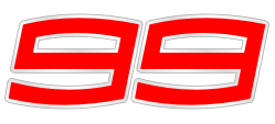 Startnumber Motorbike Jorge Lorenzo 2013